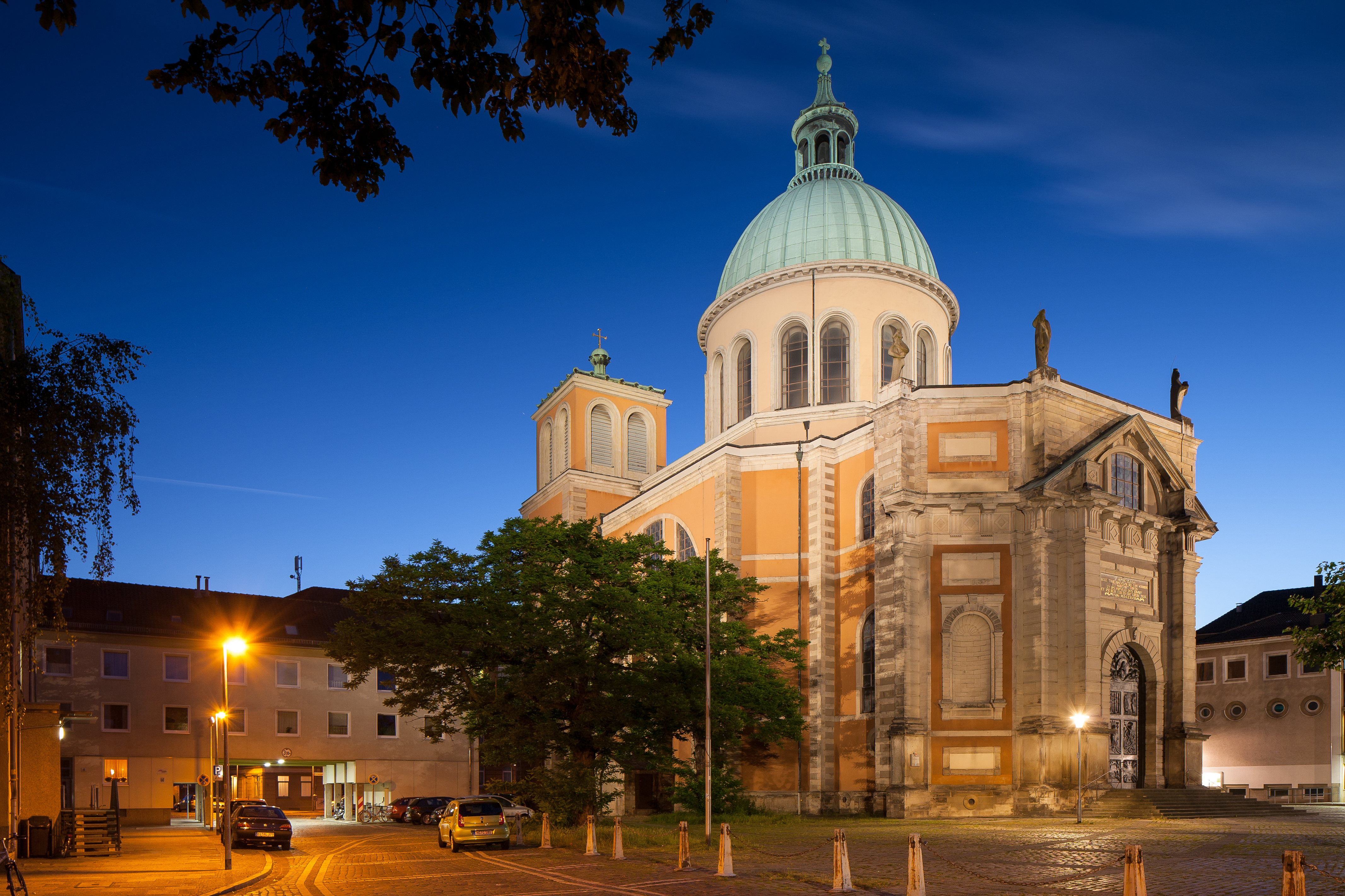 St. Clemens basilica located at Clemensstrasse in Hanover, Germany.